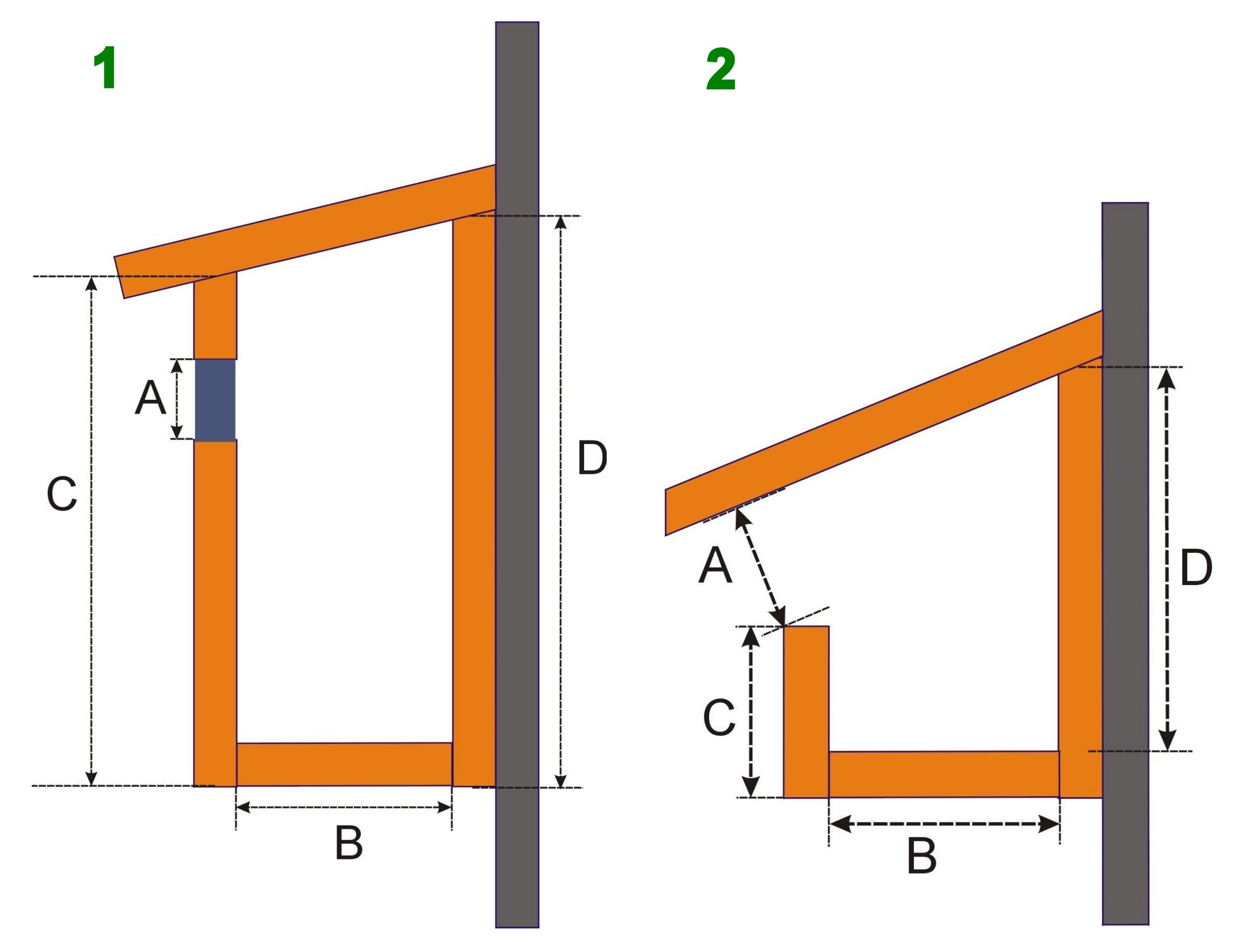 Basic nestboxes based on project of Jan Sokołowski, Polish ornithologist